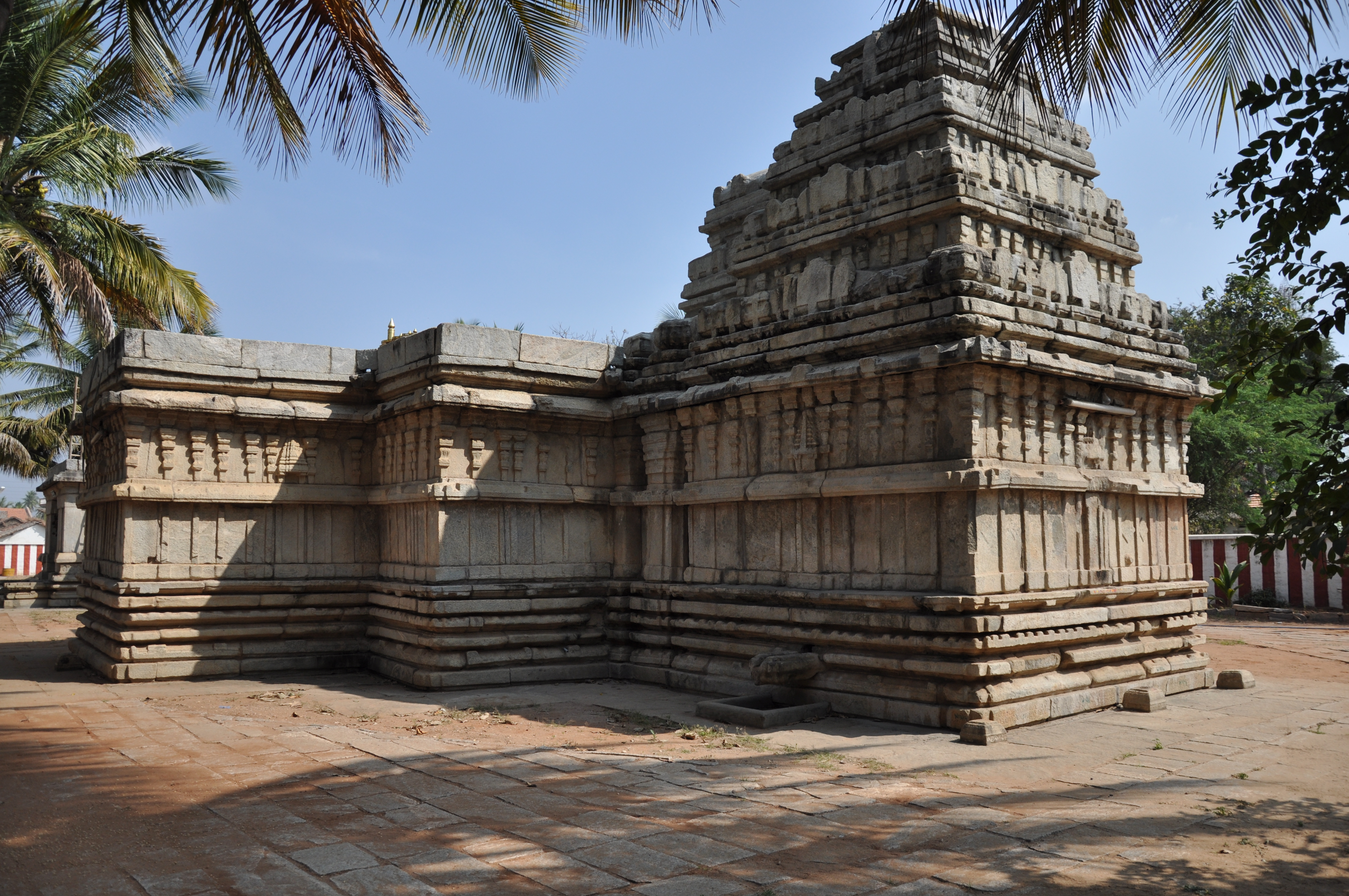 This temple is situated in Hedathale Village, Southern Karnataka, India. This is the backside view of the main temple.